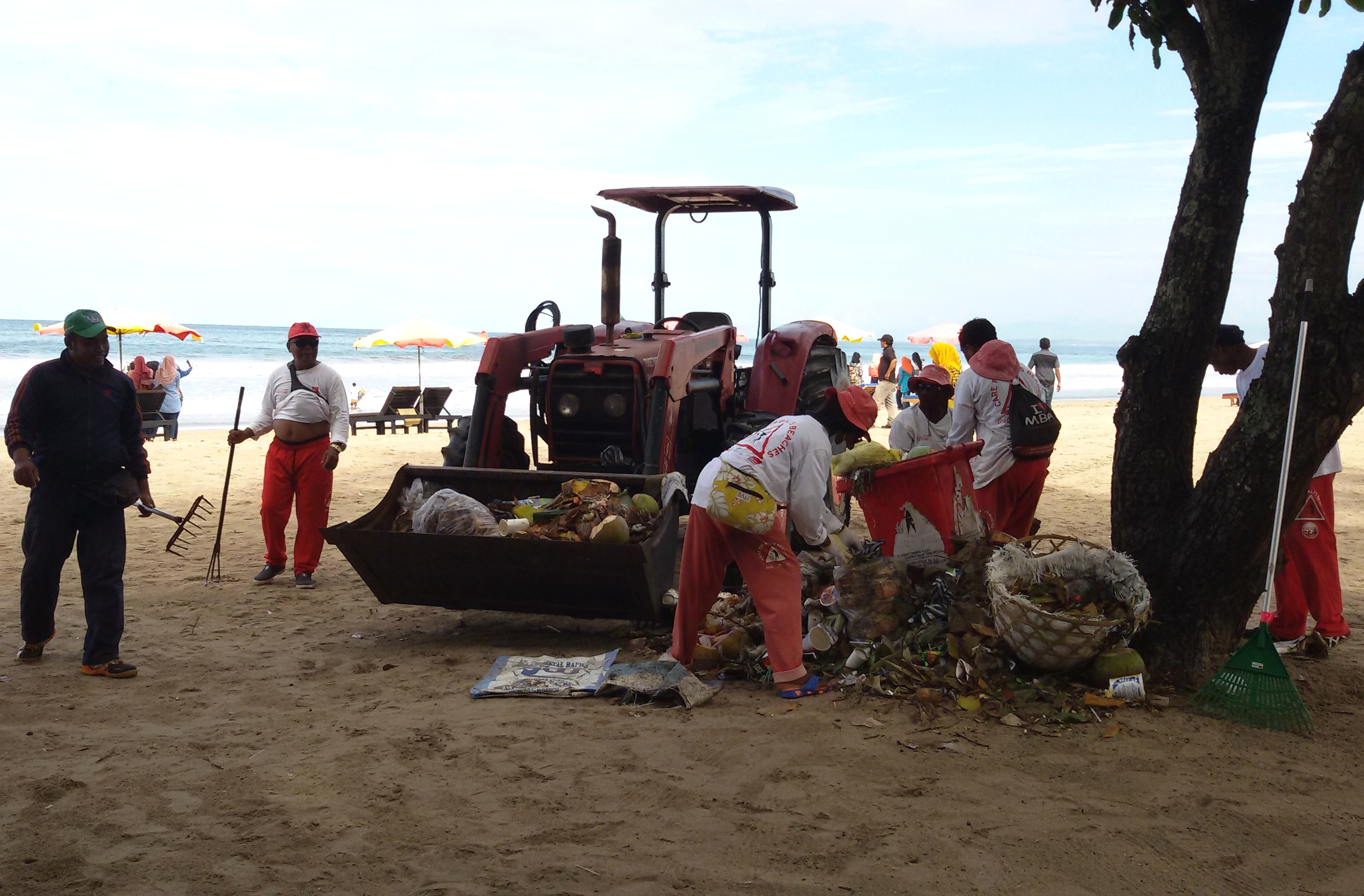 Cleaning Kuta Beach